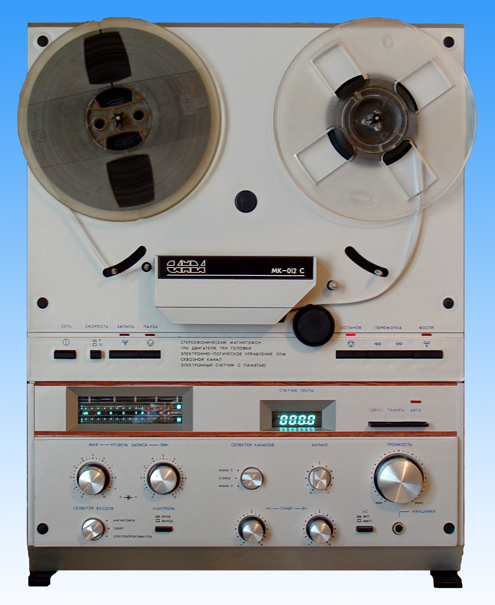 Sandа МК 012 stereos